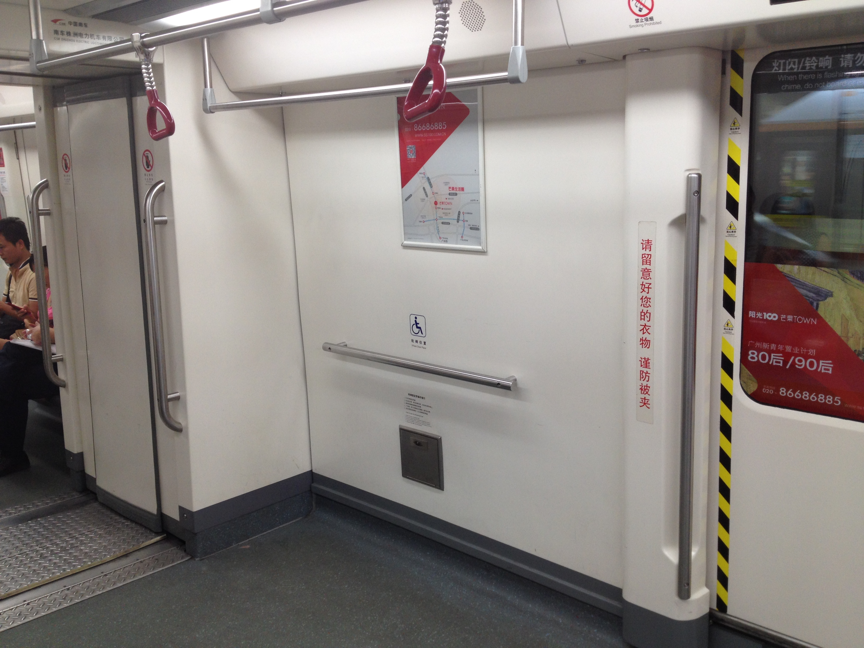 Guangzhou Metro Line 3 for B4 train Wheelchair